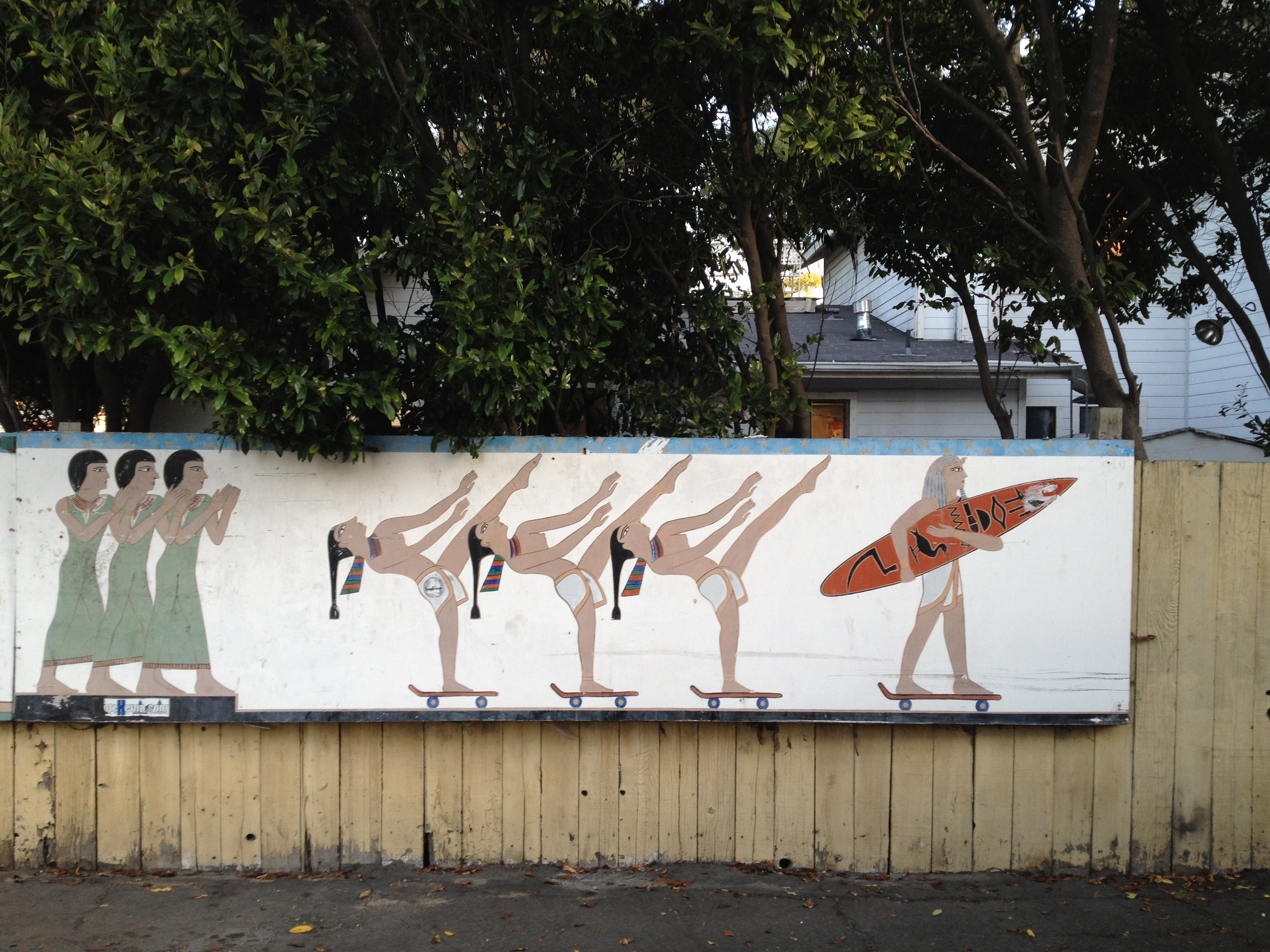 Mural on Seville Road in Isla Vista, California, in the parking lot of the former band studio and storage unit buildings. This mural no longer exists; this lot was turned into an apartment building in 2013. Originally posted on Flickr, also posted on LocalWiki.